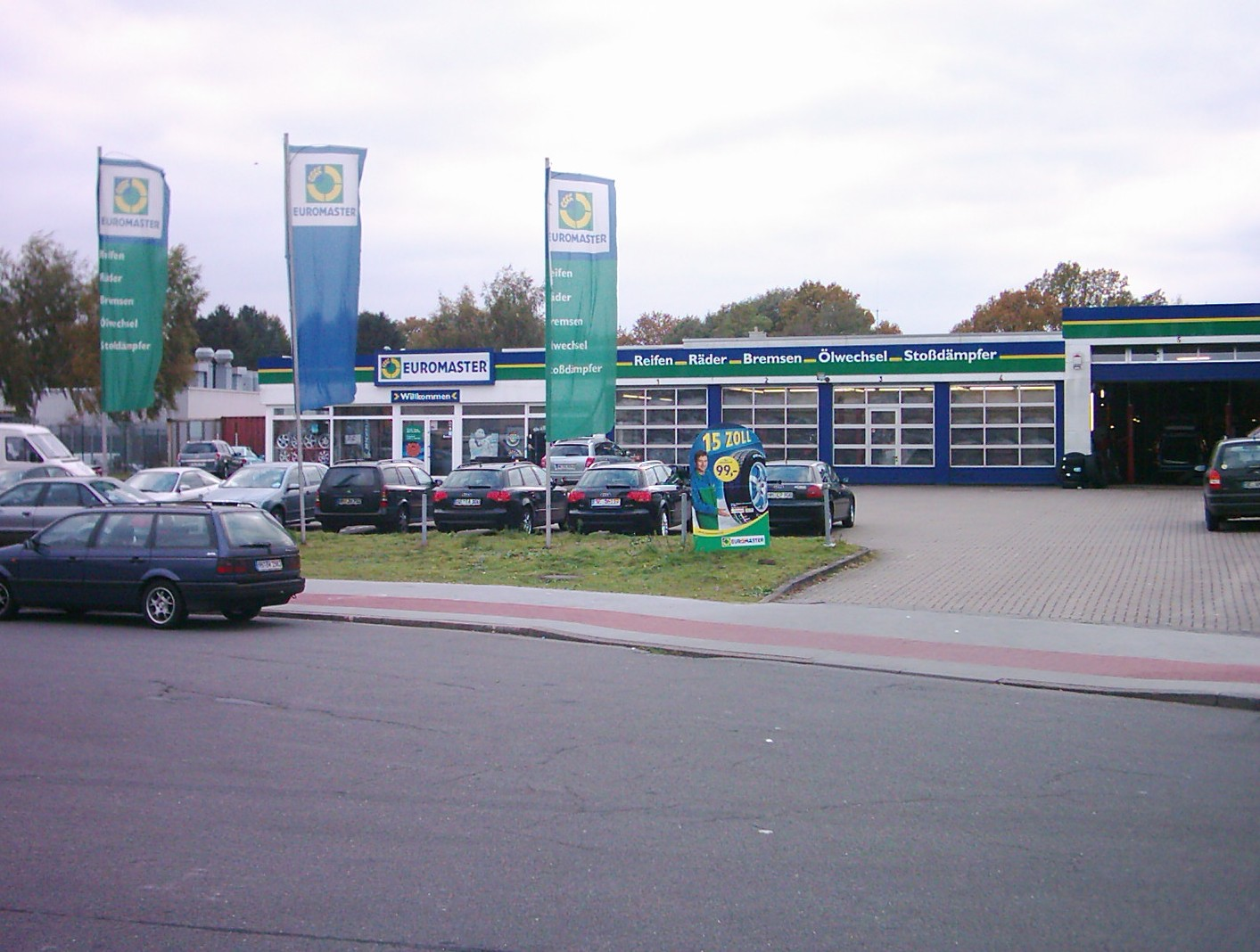 Branch of Euromaster in Norderstedt, Germany.